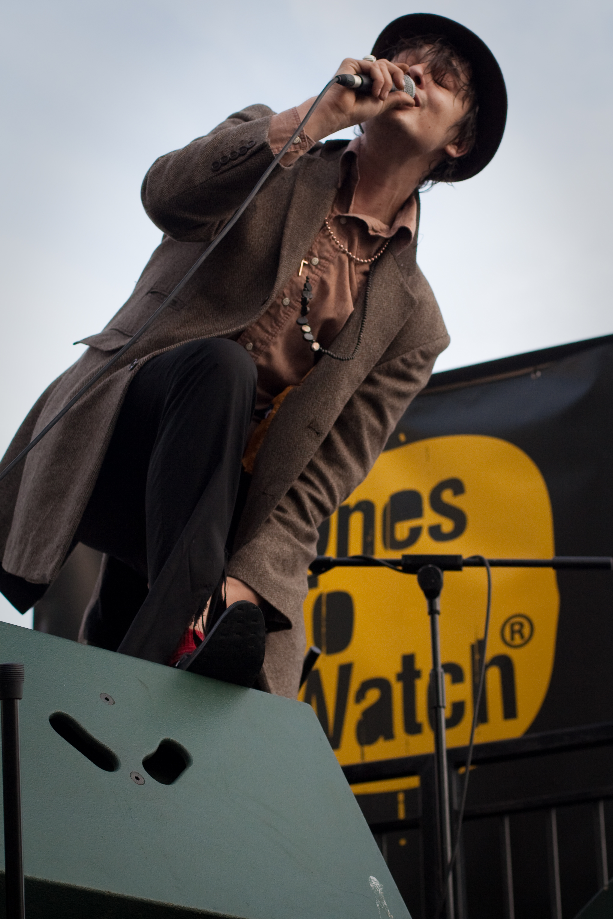 Peter med nastopom s skupino Babyshambles, maj 2009.